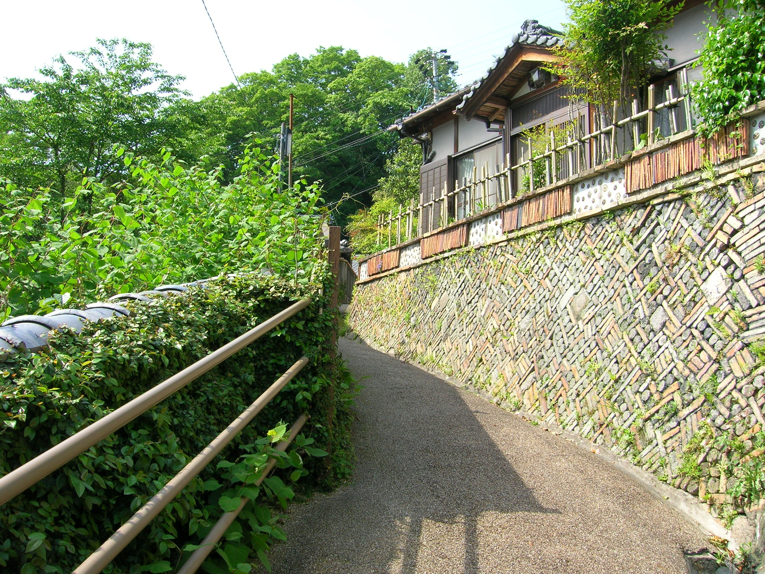 Kamagaki no Komichi. Loc: Seto city, Aichi Prefecture, Japan. 窯垣の小径・ツクが埋め込まれた壁。 撮影場所 愛知県瀬戸市